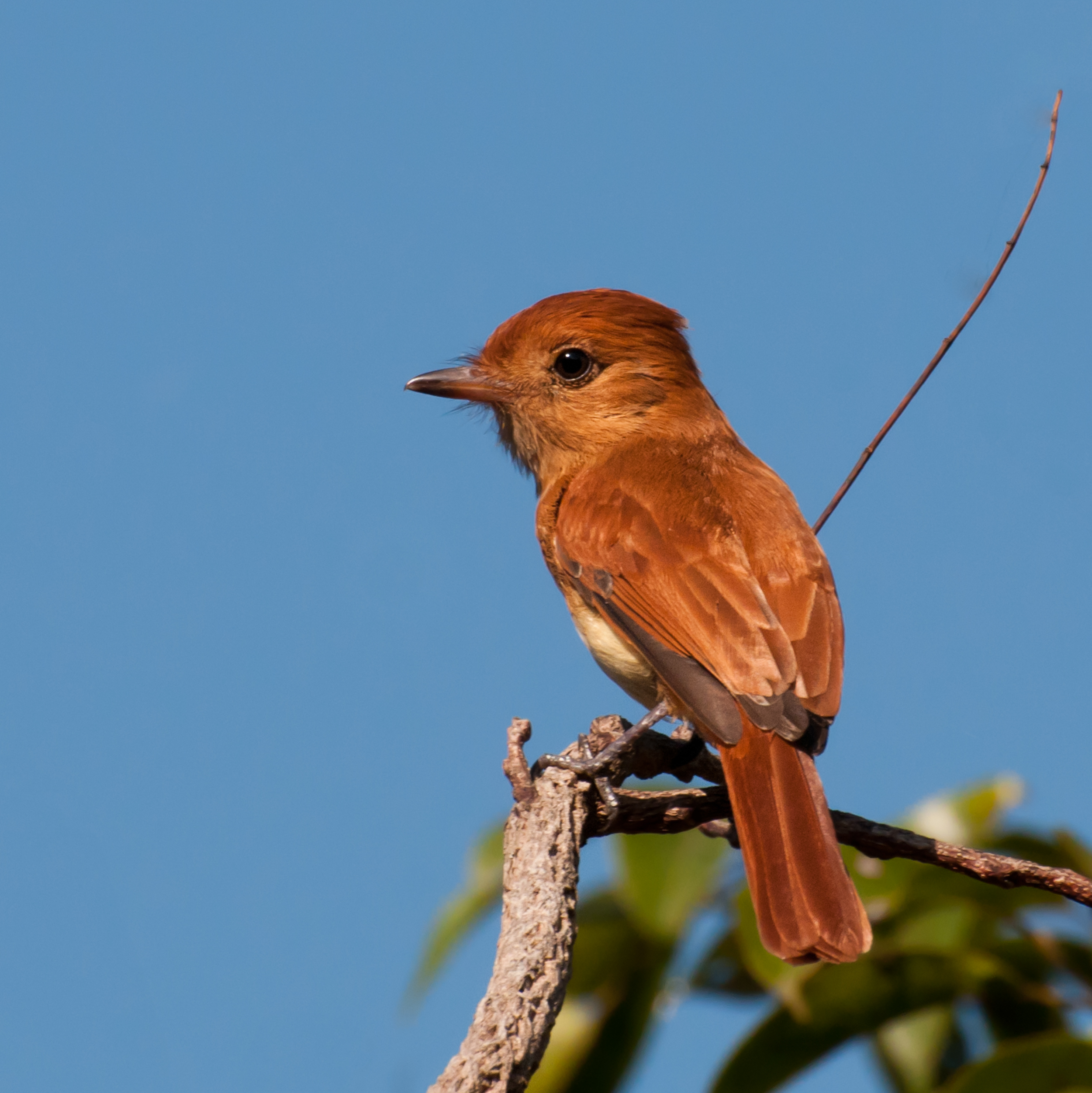 A Rufous Casiornis in Piraju, São Paulo, Brazil.